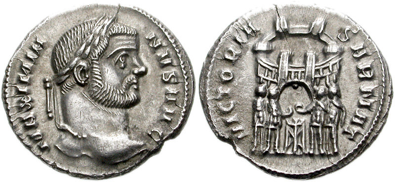 Maximianus. First reign, AD 286-305. AR Argenteus (19mm, 3.40 g). Ticinum mint. Struck AD 295. Laureate head right VICTORIA SARMAT, four emperors sacrificing before camp-gate with six turrets. RIC VI 16b; Jelocnik 37; RSC 548d. Good VF, some light corrosion on the reverse, flan crack. From the Marc Poncin Collection.